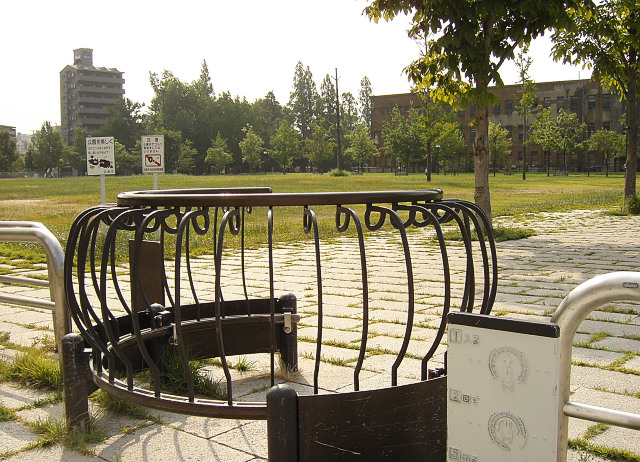 A gate for wheelchairs in Naka-ku, Hiroshima. Taken with Kyocera Contax U4R